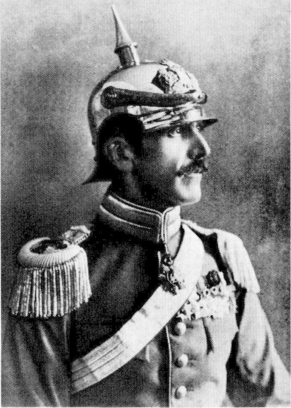 Ernst Linder (1868–1943), a Swedish general of Finnish descent.